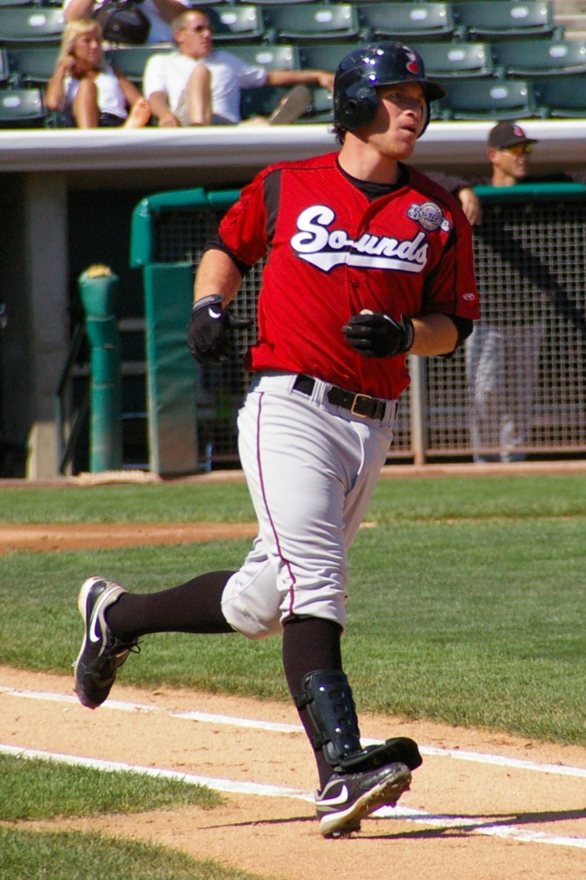 Mat Gamel, a third baseman for the minor league Nashville Sounds, running the bases during a game at Spring Mobile Ballpark on August 9, 2009